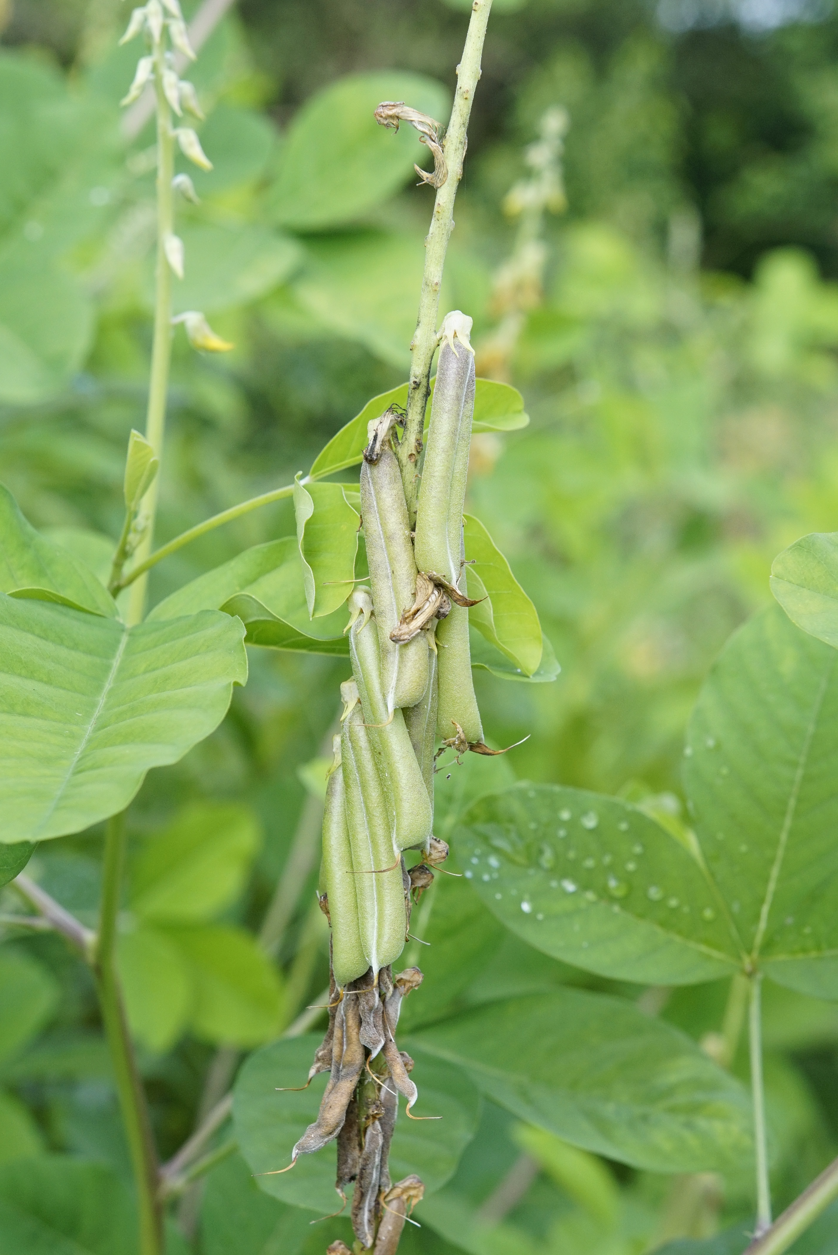 Chemanchery